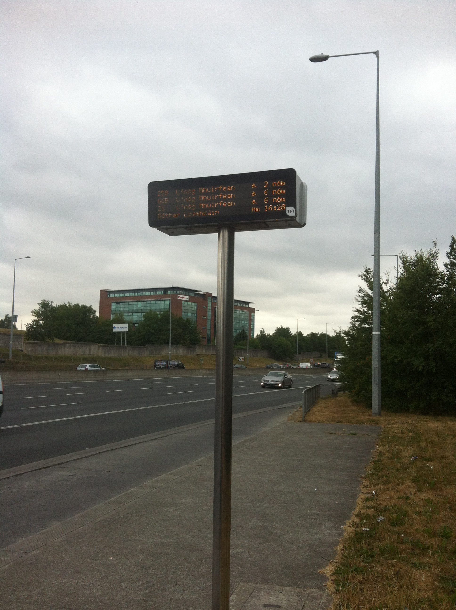 This is a photograph of the RTPI system deployed by Dublin Bus